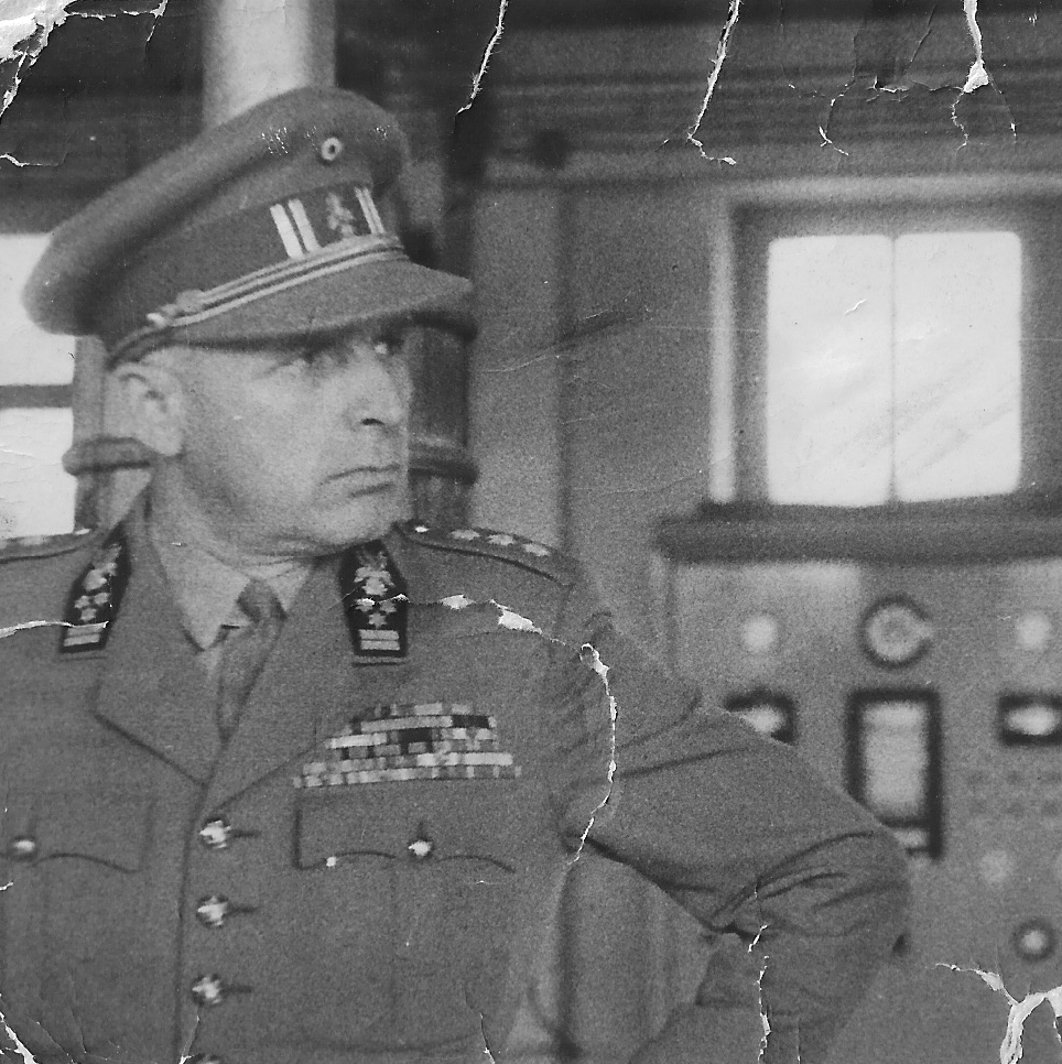 Photo of Eugène De Greef. I upload this, to be used for his page. It's a family photograph